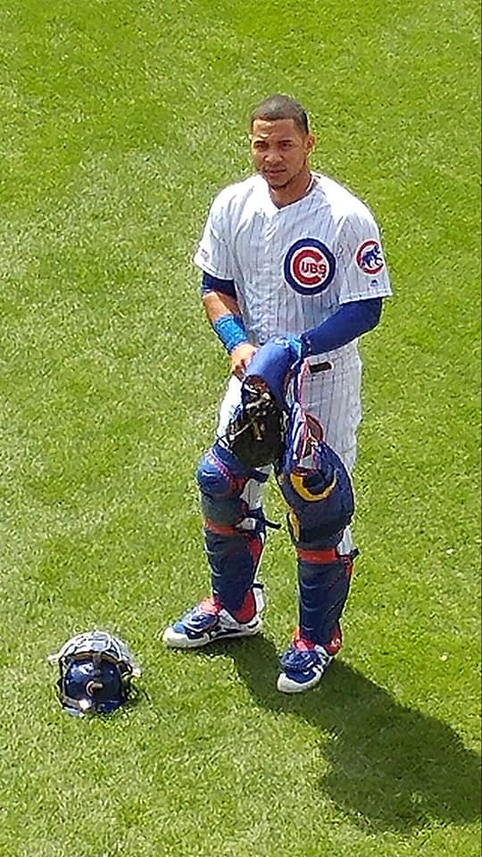 Chicago Cubs catcher Willson Contreras before their game against the Los Angeles Angels on April 13, 2019.